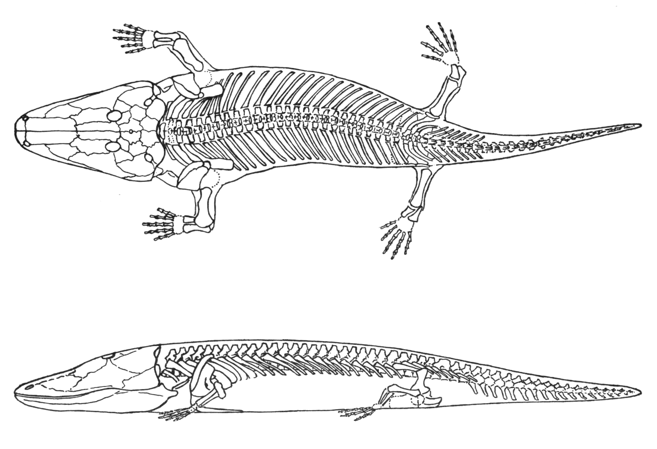 Paracyclotosaurus davidi. Reconstruction of the skeleton in a walking pose. Total length approximately 225 cm.